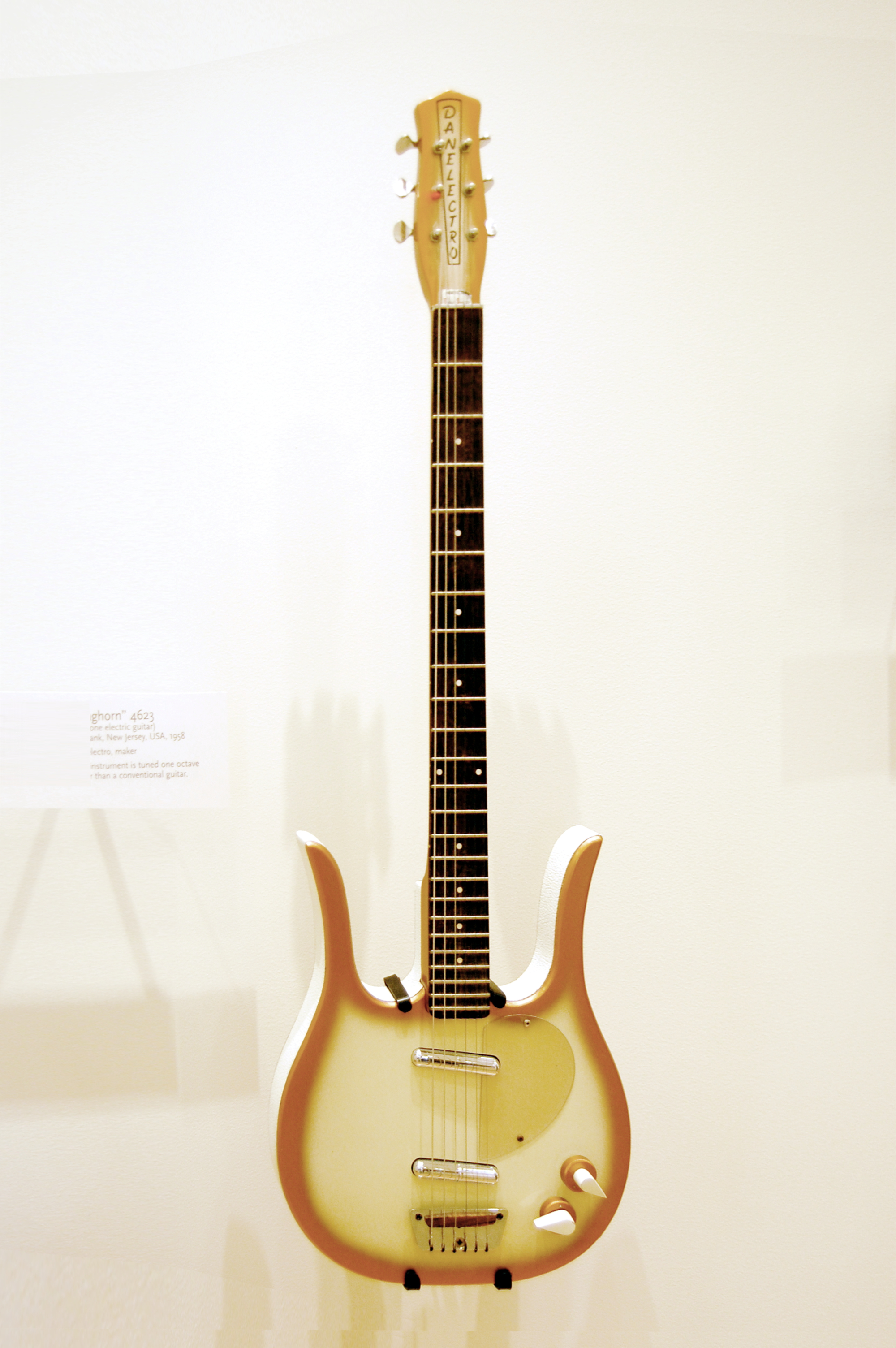 Danelectro Longhorn 4623 (1958), MIM PHX Longhorn™ 4623 (Baritone electric guitar) Red Bank, New Jersey, USA, 1958 Danelectro, maker This instrument is tuned one octave lower than a conventional guitar.